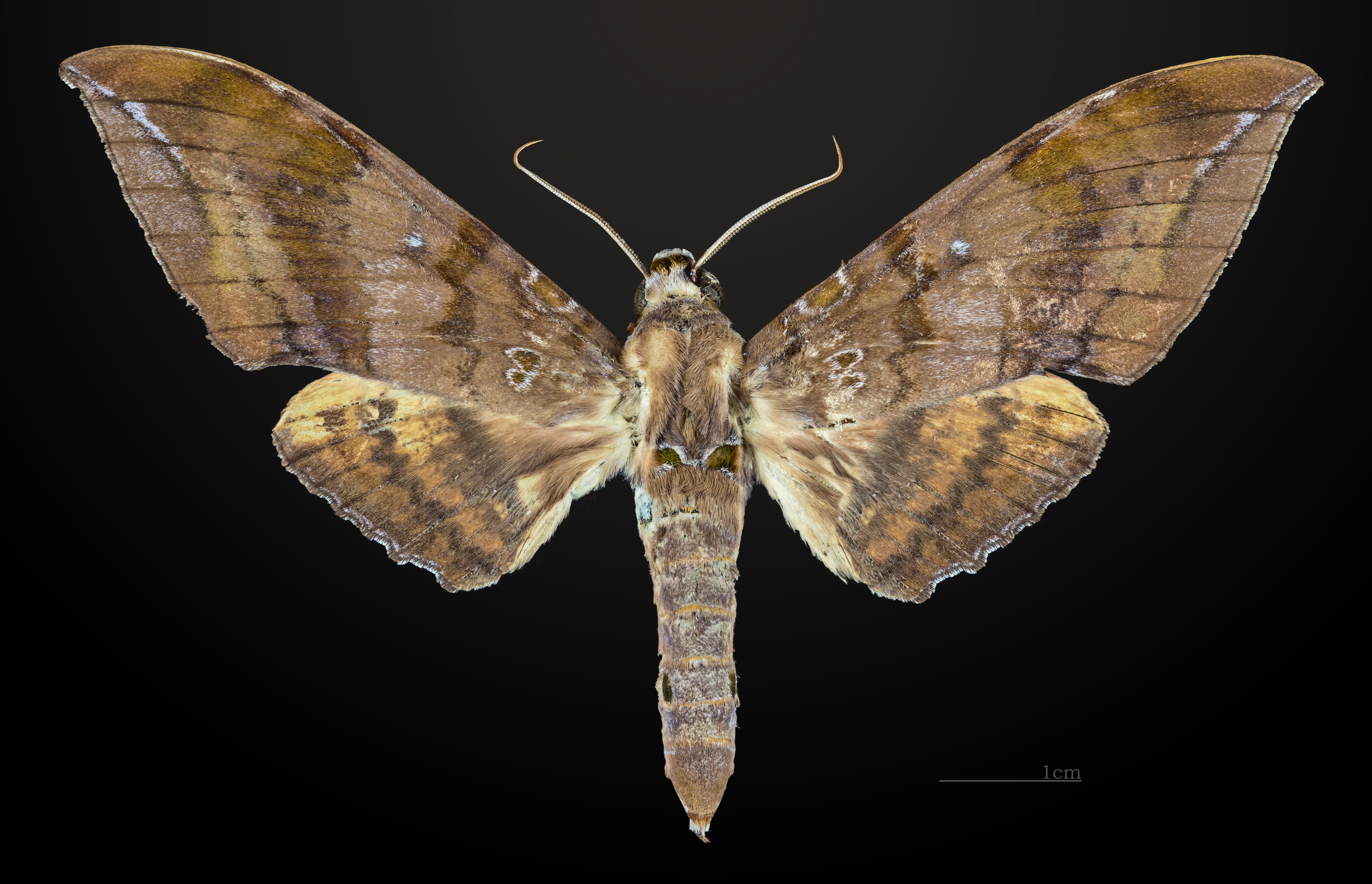 Ambulyx semifervens - Dorsal side Collection of the Mathematician Laurent Schwartz